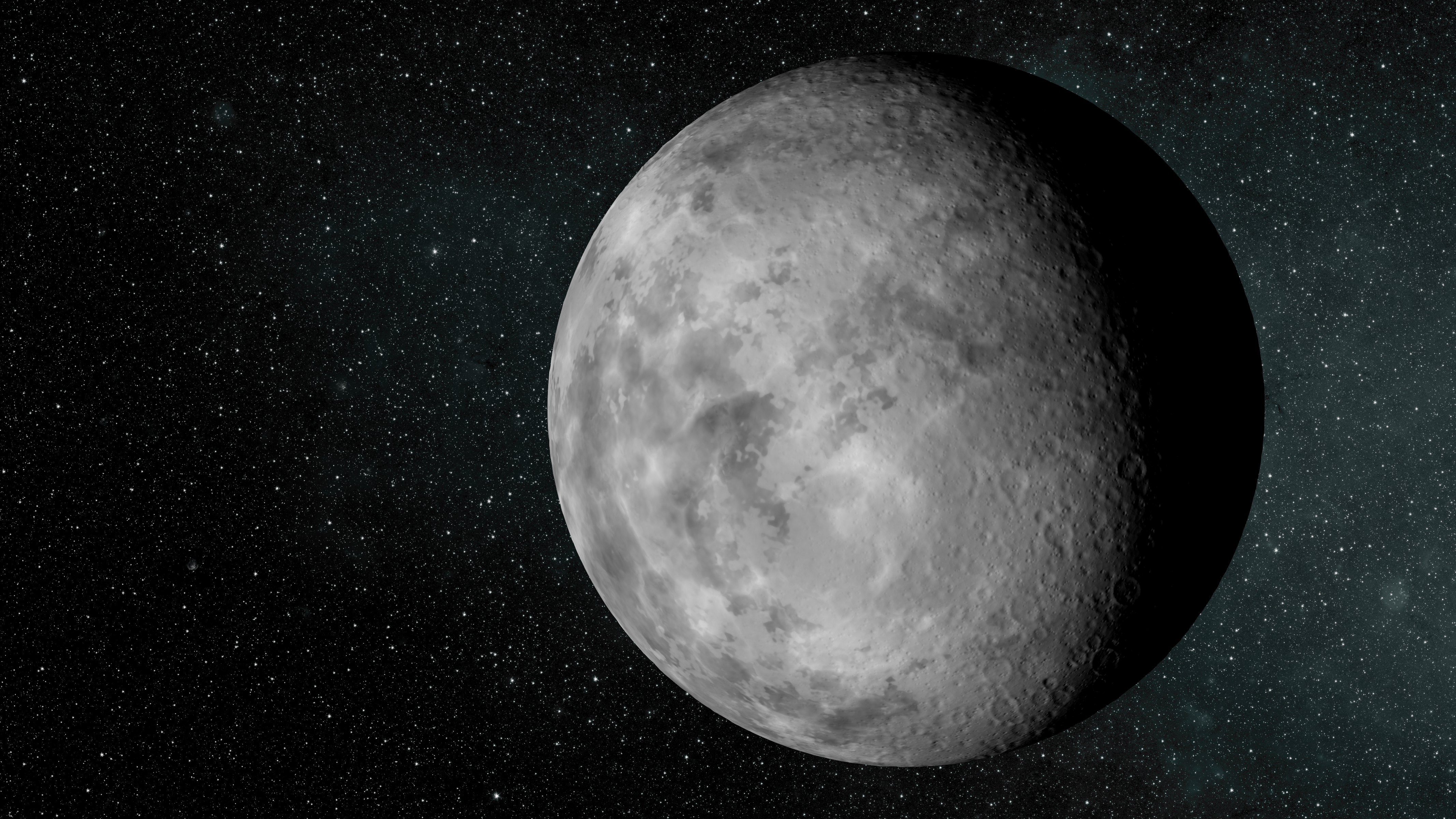 NASA's Kepler mission has discovered a new planetary system that is home to the smallest planet yet found around a star like the Sun, approximately 210 light-years away in the constellation Lyra. The artist's concept depicts the new planet dubbed Kepler-37b. The planet is slightly larger than the Moon, measuring about one-third the size of Earth. Kepler-37b orbits its host star every 13 days at less than one-third the distance Mercury is to the Sun. The estimated surface temperature of this smoldering planet, at more than 800 degrees Fahrenheit (700 degrees Kelvin), would melt the zinc in a penny. Astronomers do not think the tiny planet has an atmosphere or could support life as we know it, but the Moon-size world is almost certainly rocky in composition.